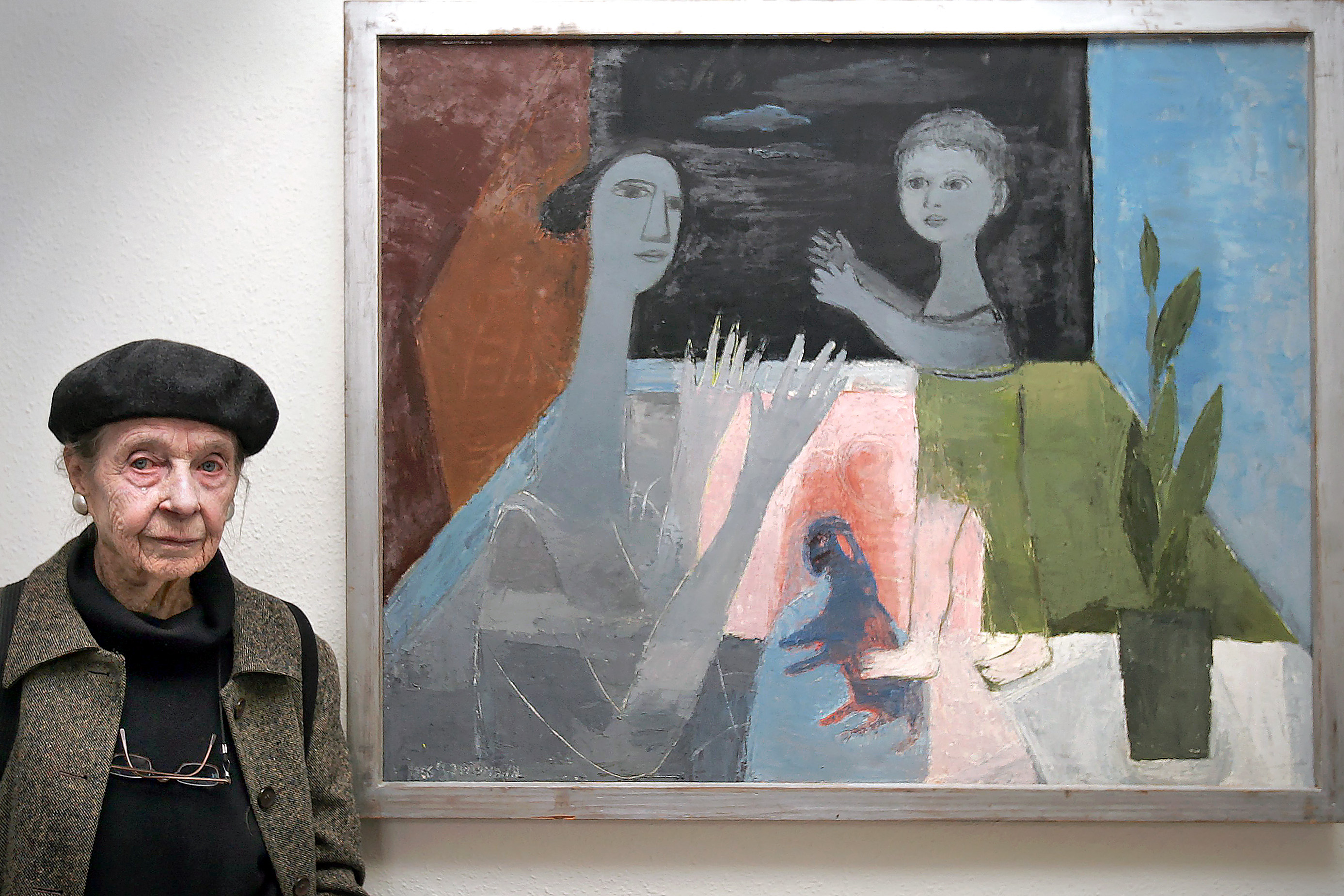 Gudrun Irene Widmann in front of her picture "Daemmerung" in the Ugge Baertle-Haus. Foto by Erich Sommer 08.03.2009